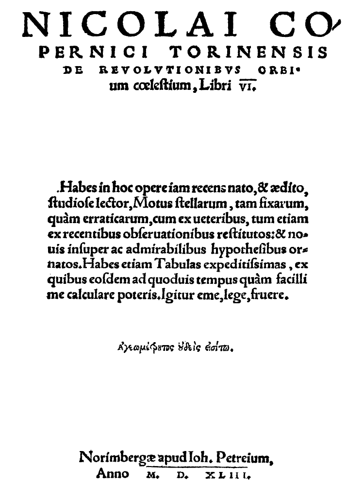 Cropped version of title page